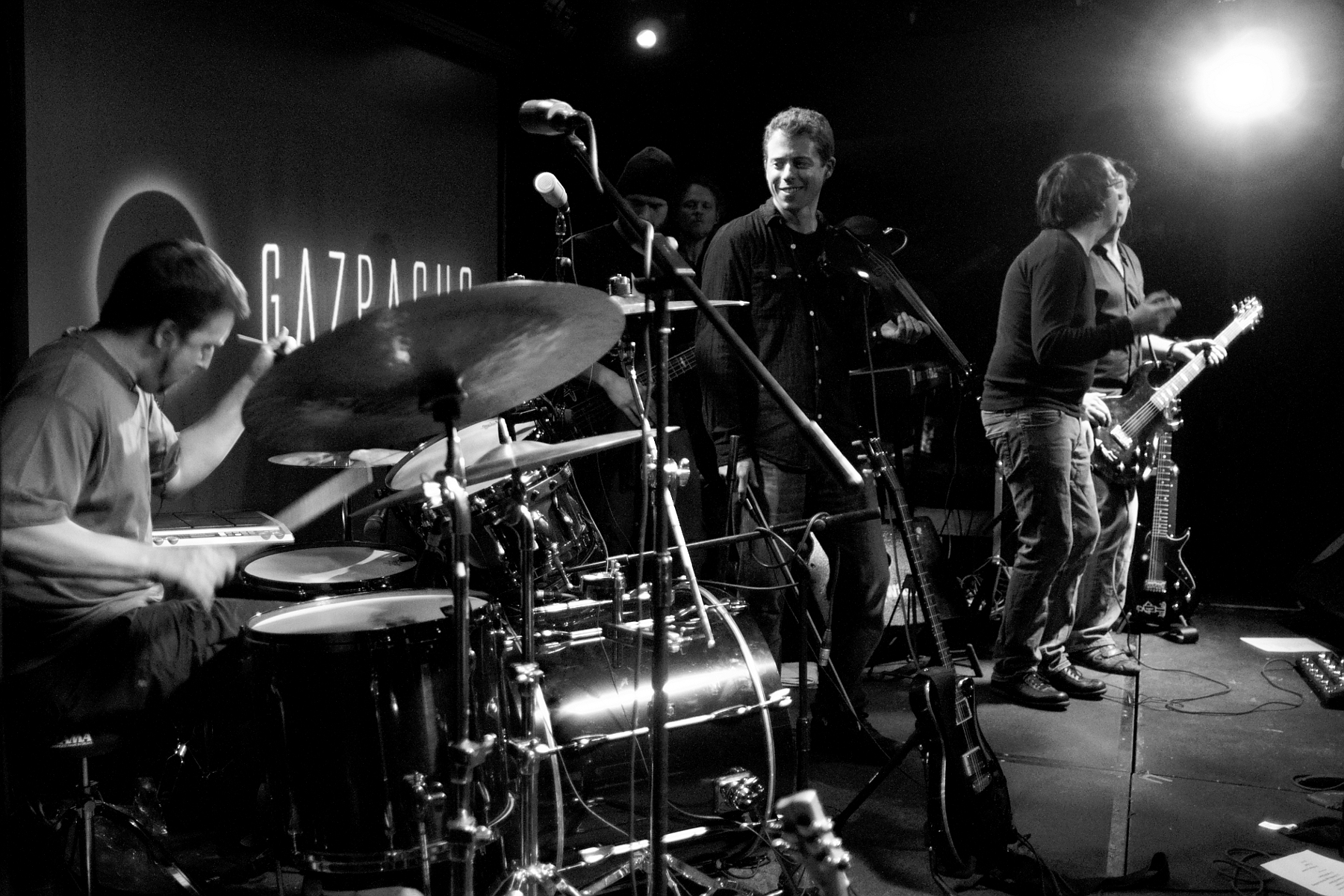 Gazpacho (band) at Dingwalls, London (2011)